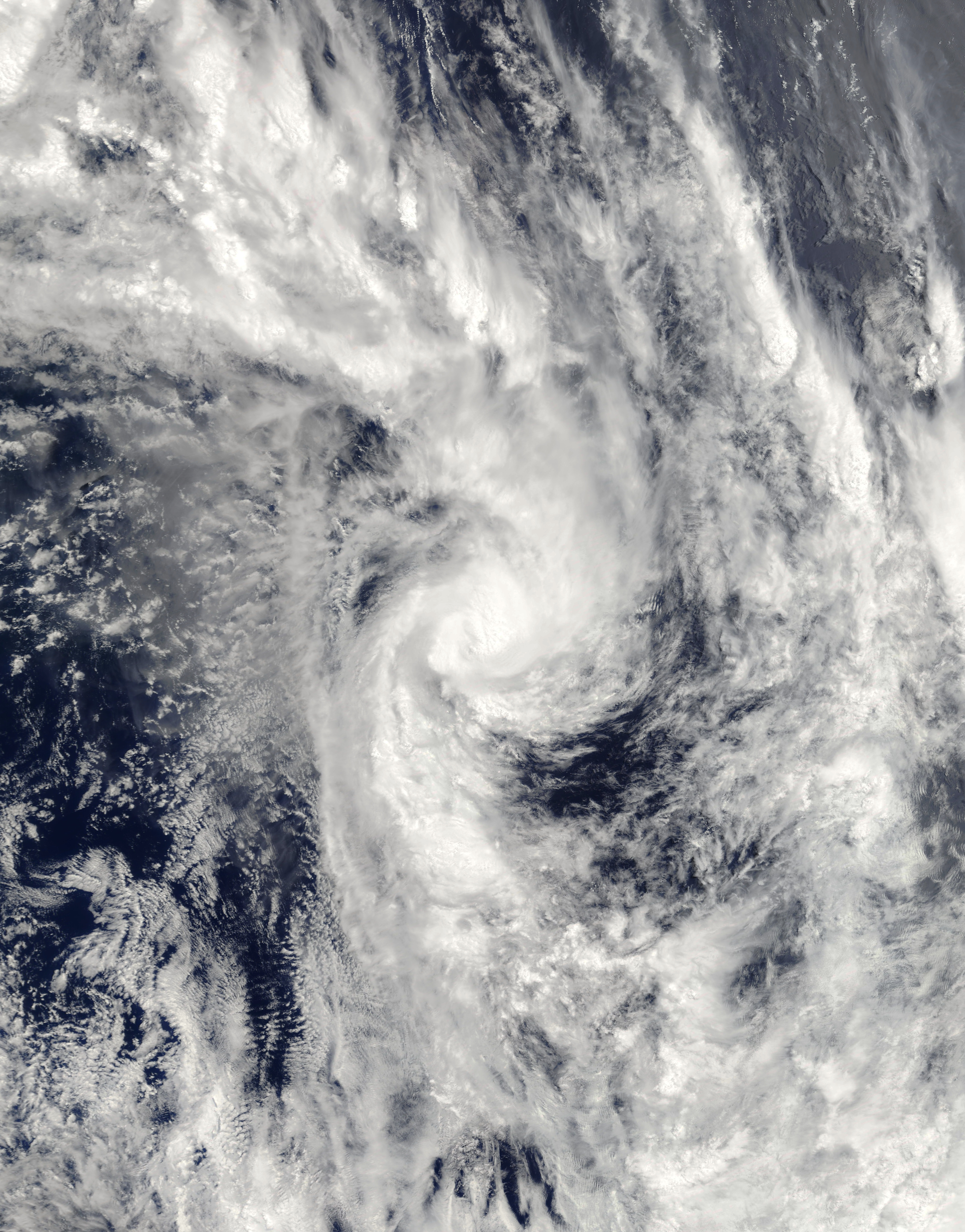 Tropical Cyclone Tam on January 13, 2006